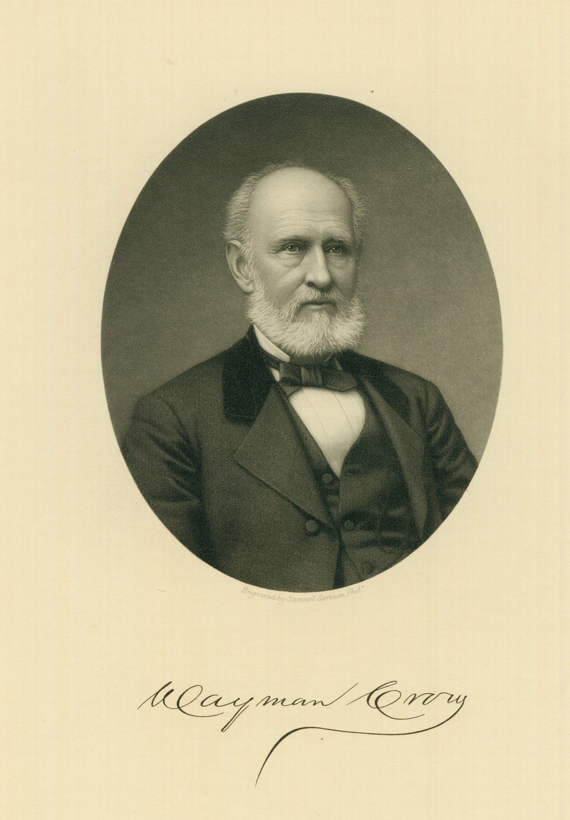 Steel engraving of Wayman Crow